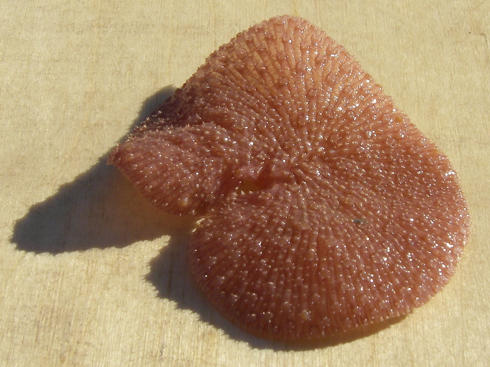 This Sea Pansy was found and subsequently released just outside the Delta National Wildlife Refuge east of the Mississippi River in Louisiana. Photo credit - Gregory Badon